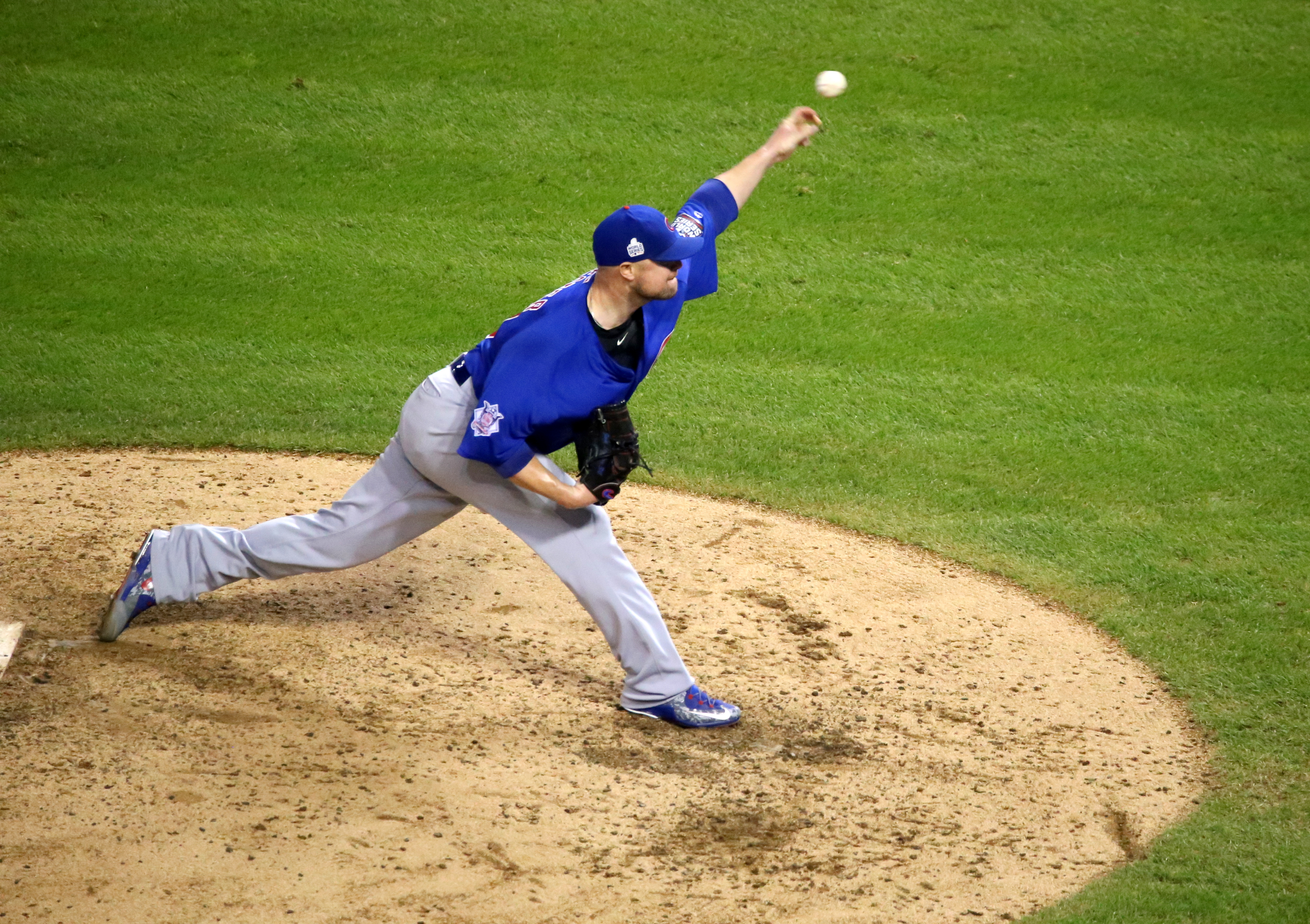 Jon Lester of the Chicago Cubs pitching in relief against the Cleveland Indians in Game 7 of the 2016 World Series at Progressive Field in Cleveland, Ohio.